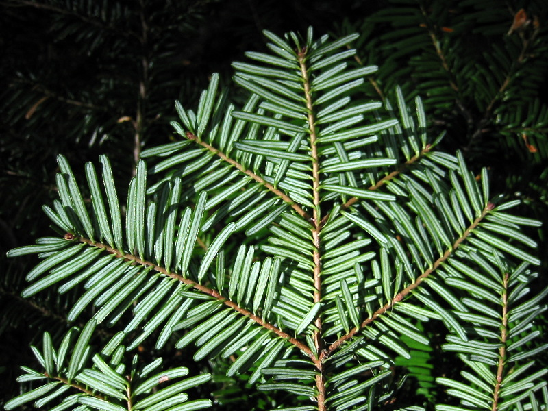 Pacific Silver Fir foliage Description: Pacific Silver Fir (Abies amabilis) foliage underside. Viewpoint location: East of Kachess Ridge Trail 1315 near Silver Creek. Kachess Ridge is located in Wenatchee National Forest, Washington, USA, about 26 km southeast of Snoqualmie Pass. GPS: UTM 10 638702E 5237843N (WGS84/NAD83) USGS Kachess Lake Quad [1] Viewpoint elevation: 3560' View direction: Date and time: 2005:10:04 14:42:57 PDT Camera: Canon PowerShot S110 Photographer: Walter Siegmund ©2005 Walter Siegmund